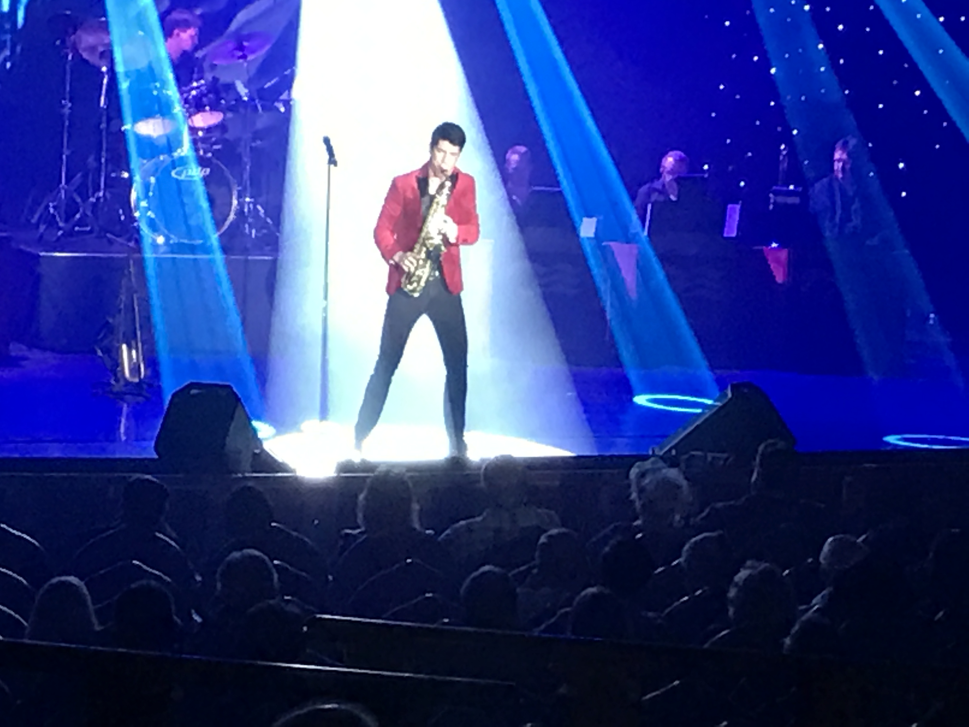 Tommy on Sax